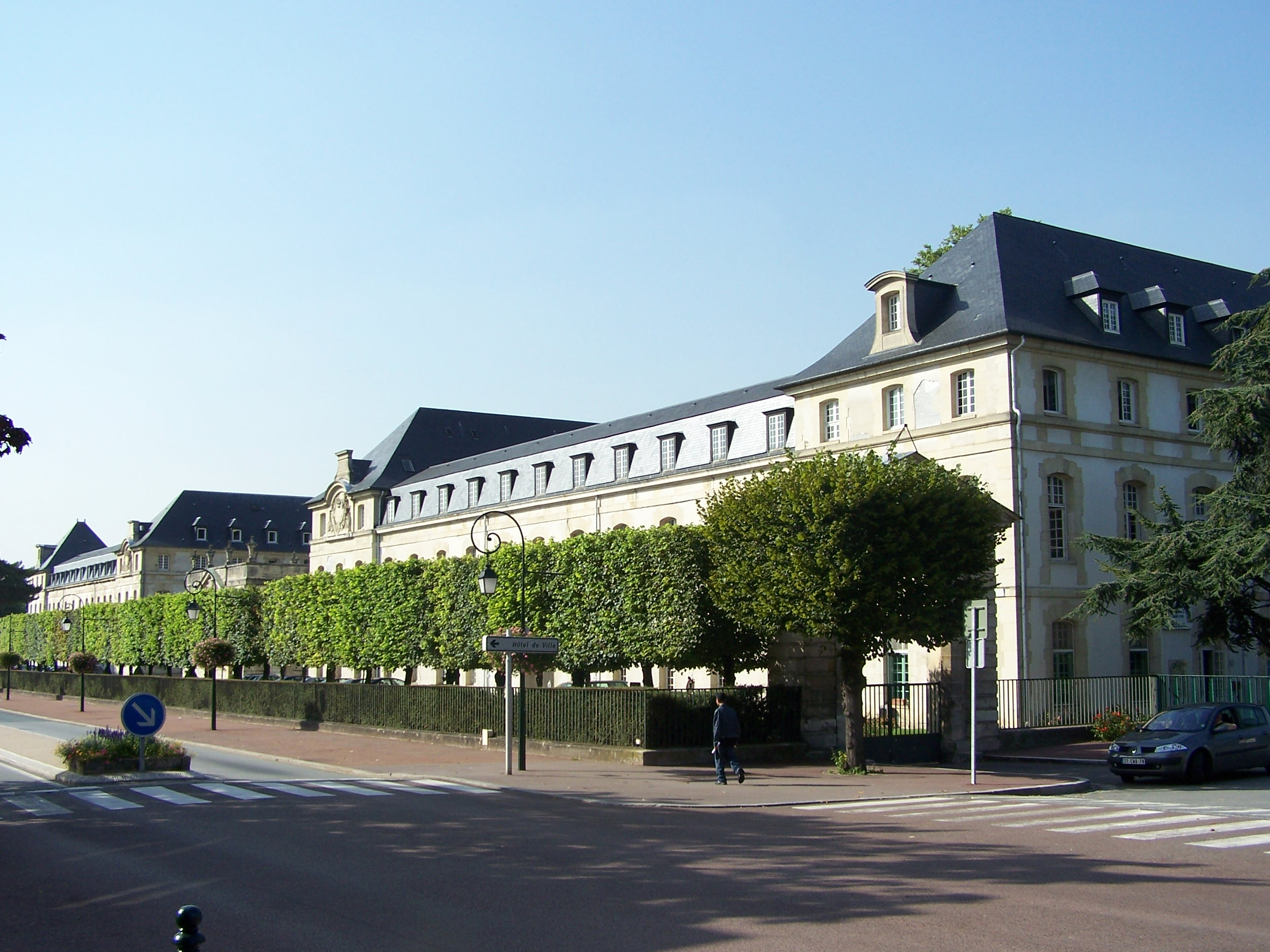 Military school of Saint-Cyr-l'École (Yvelines, France). Personal picture. Auteur/Author : ℍenry Salomé